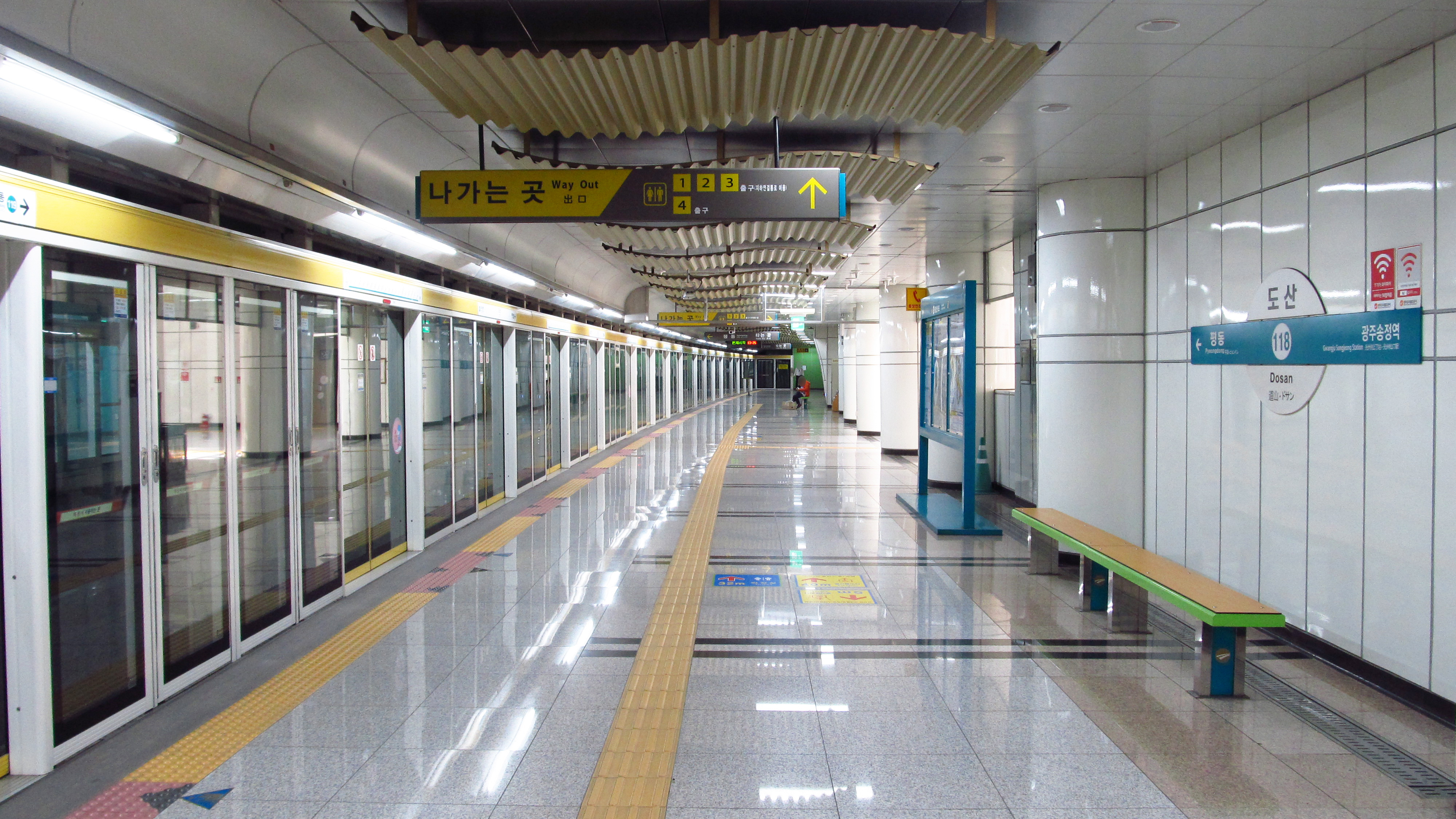 The platform at Dosan Station on Gwangju Metro Line 1 in Gwangsan-gu, Gwangju, Republic of Korea(South Korea)